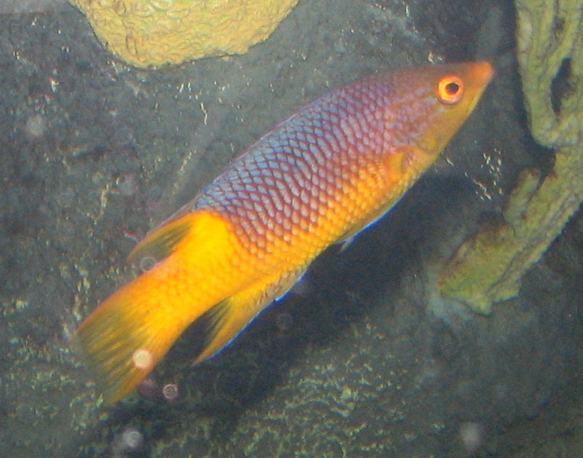 Spanish Hogifish (Bodianus rufus) at Louisville Zoo